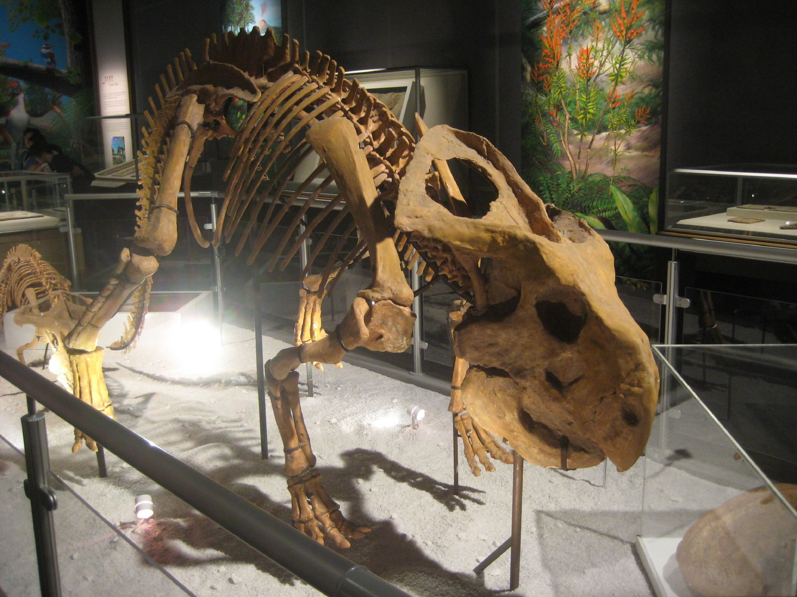 I've always liked the ceratop type dinos.